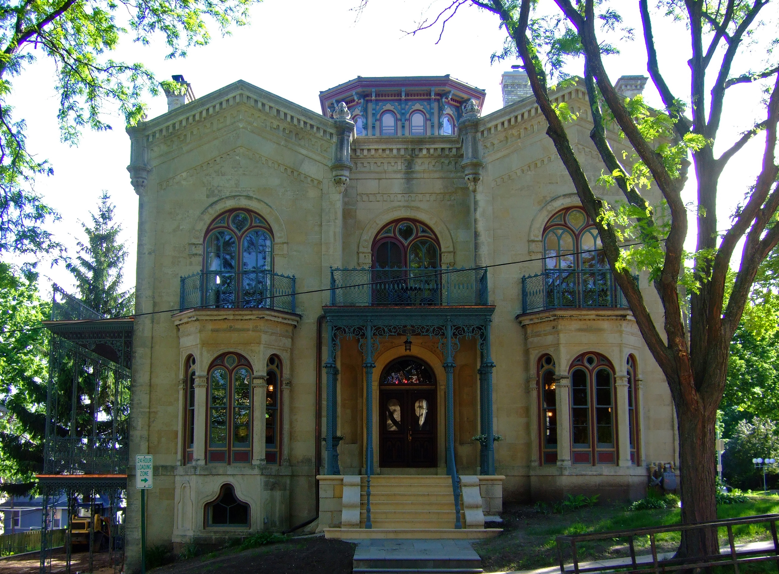 The Carrie Pierce House in Madison, Wisconsin. It was designed by August Kutzbock and added to the National Register of Historic Places in 1972.